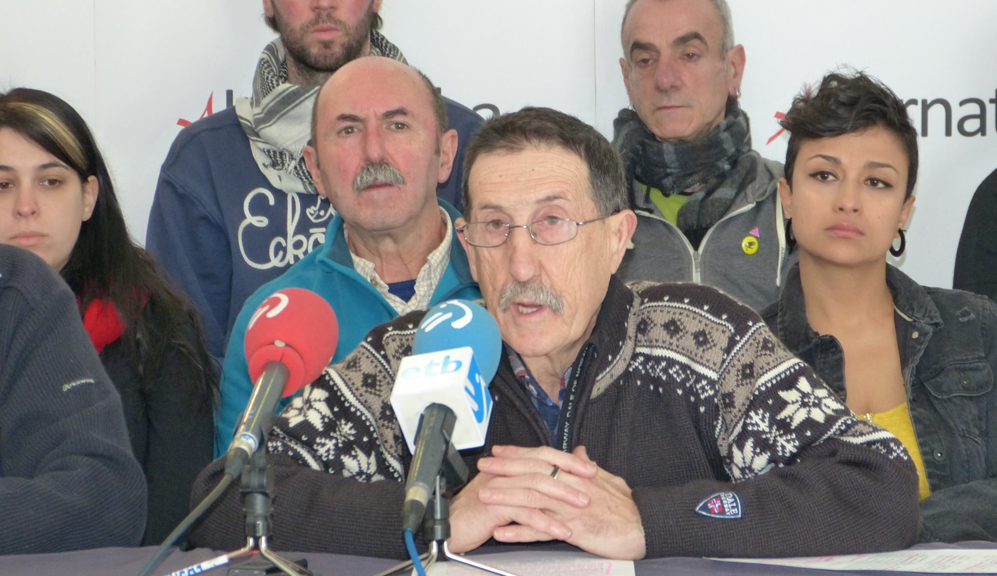 Joxe Iriarte